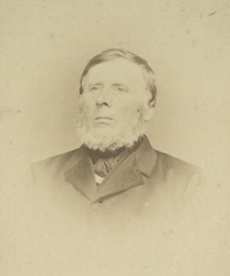 A portrait from the Welsh Portrait Collection at the National Library of Wales. Depicted person: Rowland Prichard – Welsh musician, composer